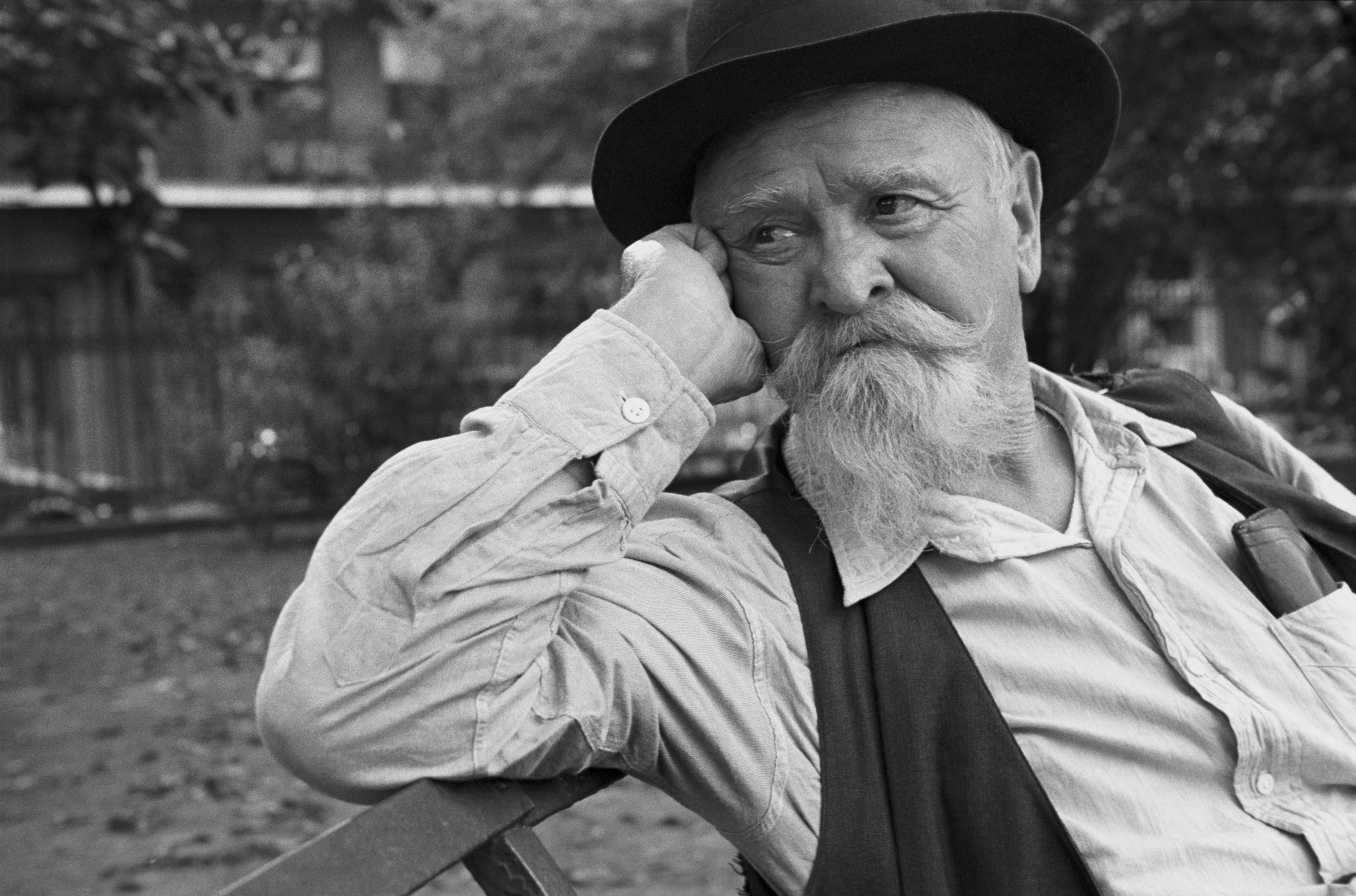 "An old sailor snapped in Jackson Square, New Orleans"